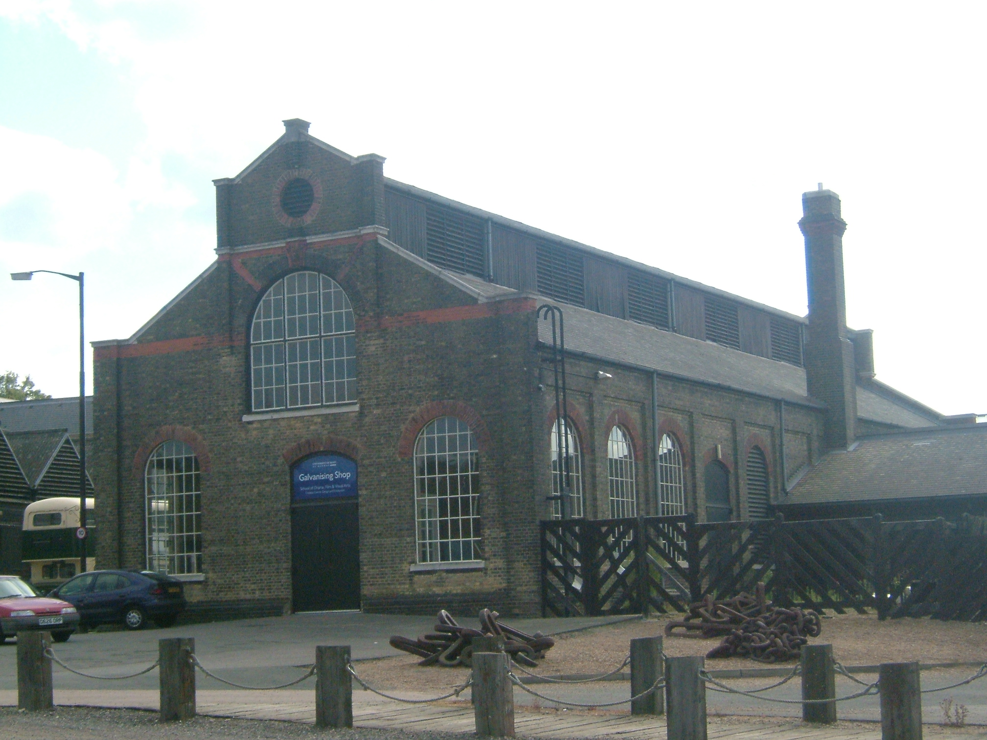 Chatham Dockyard, Kent,England has the finest collection of 18th and 19th century naval dockyard buildings many of which are scheduled as ancient monuments. Galvanising is a process where iron is protected from rusting by being dipped in molten zinc. Baths of acid are used to clean the metal. The fumes vented through the louvres in the roof. Built of brick in c 1890